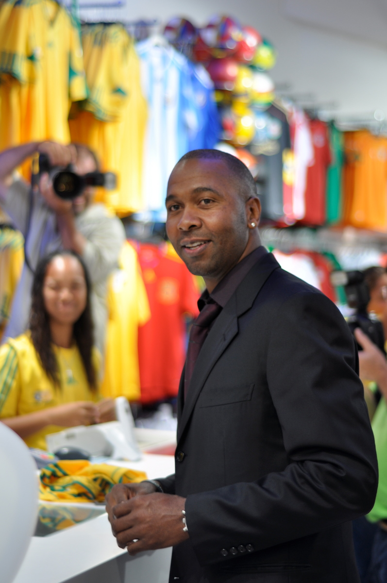 South African footballer Lucas Radebe